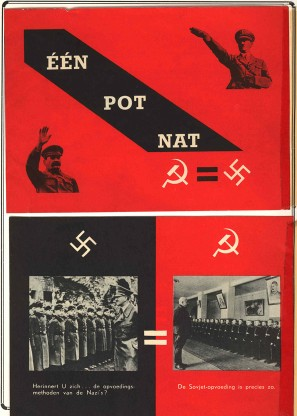 A document from the collection of Henri Max Corwin, depicting the Propaganda methods in the communist Russia and in the national-socialist Germany.